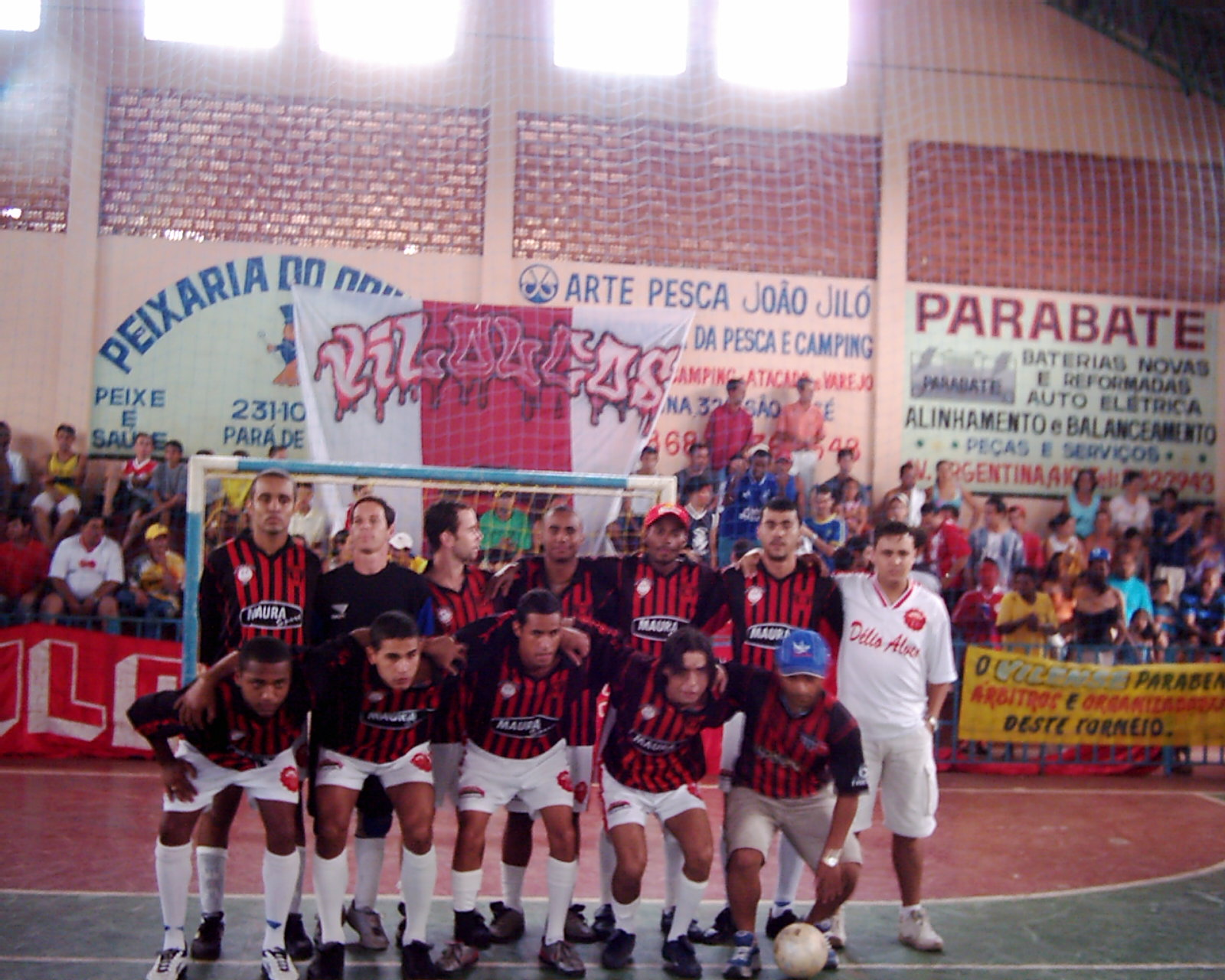 Vilense, Champion of the 3rd Friendship Tournament of the São Cristóvão Neighborhood 2004